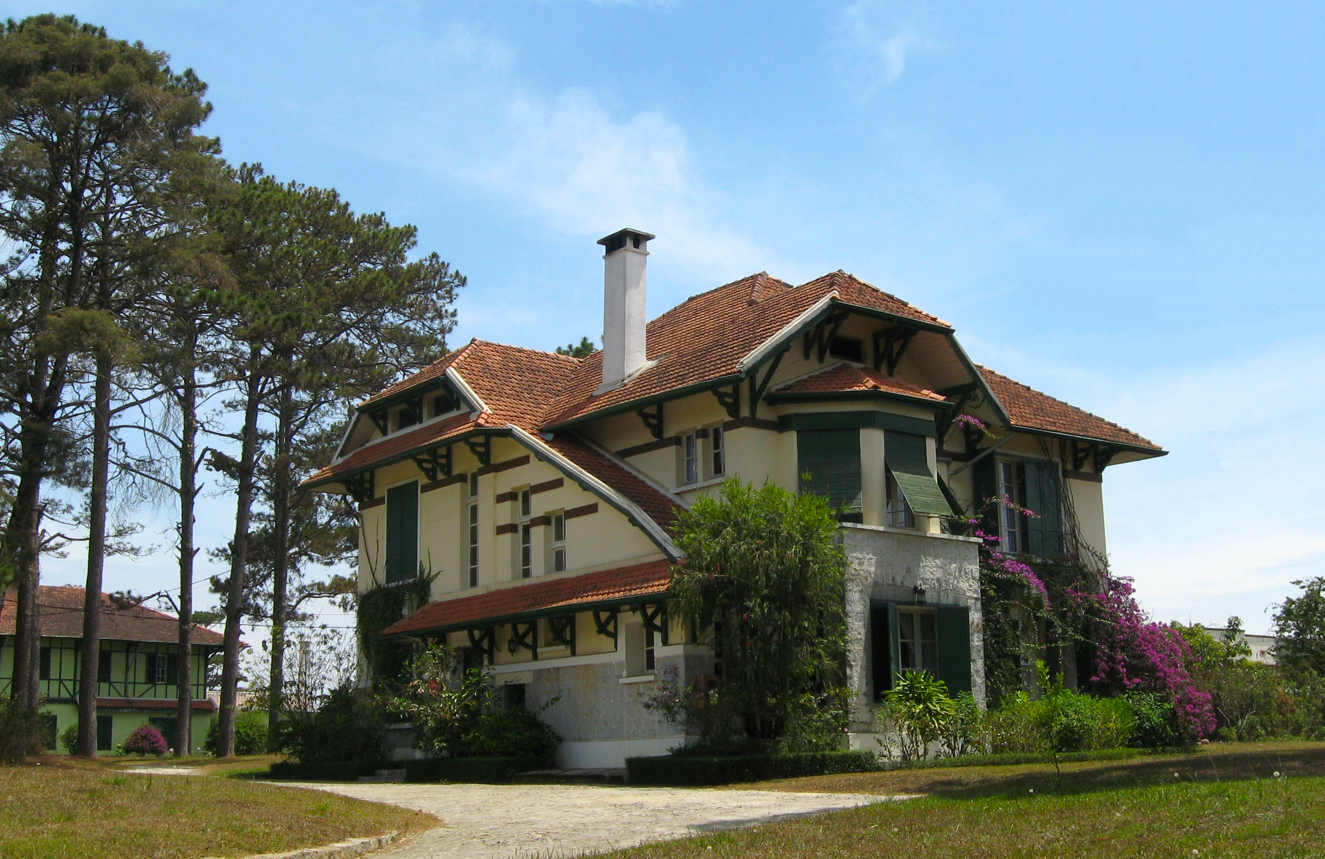 Villa 18 Tran Hung Dao, Da Lat